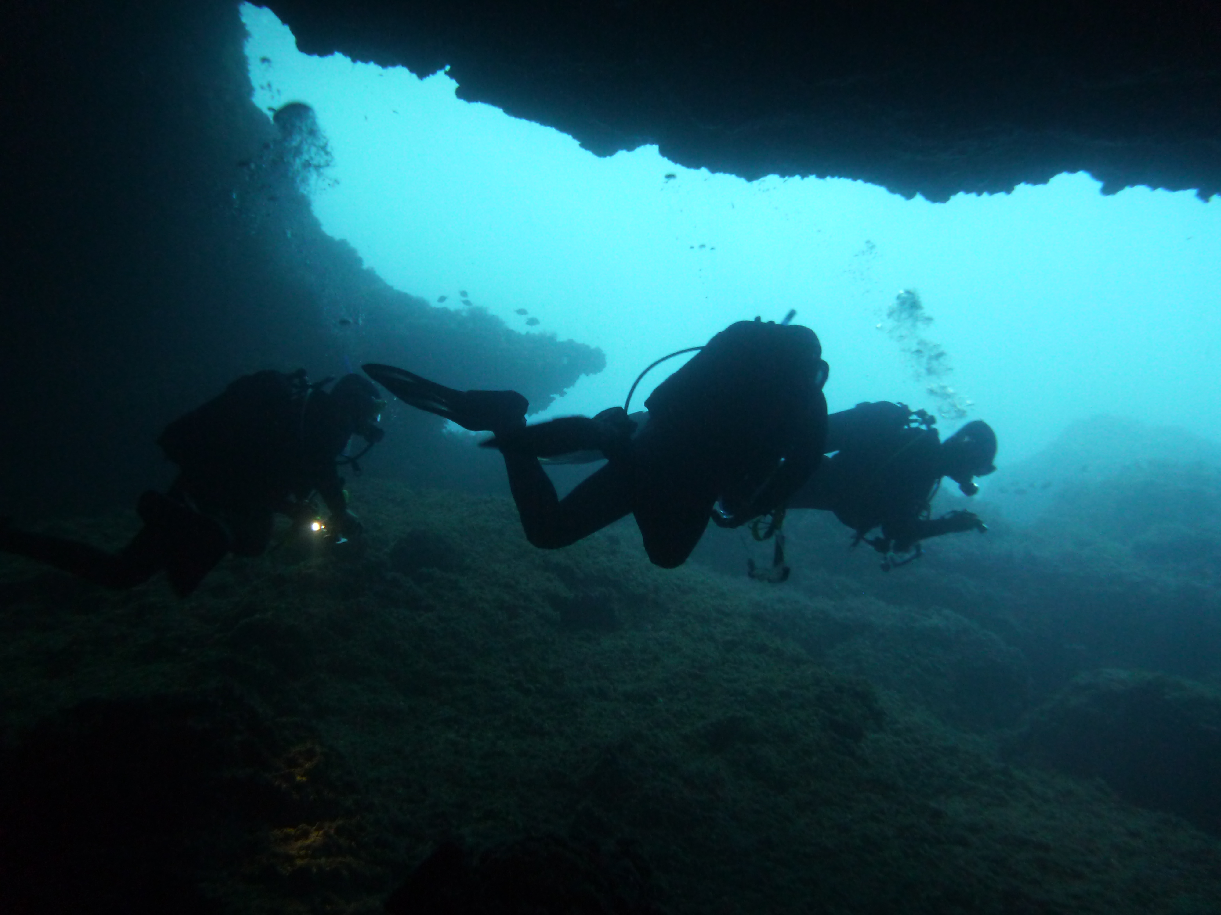 Divers at entry of diving cave in Cala sa Nau